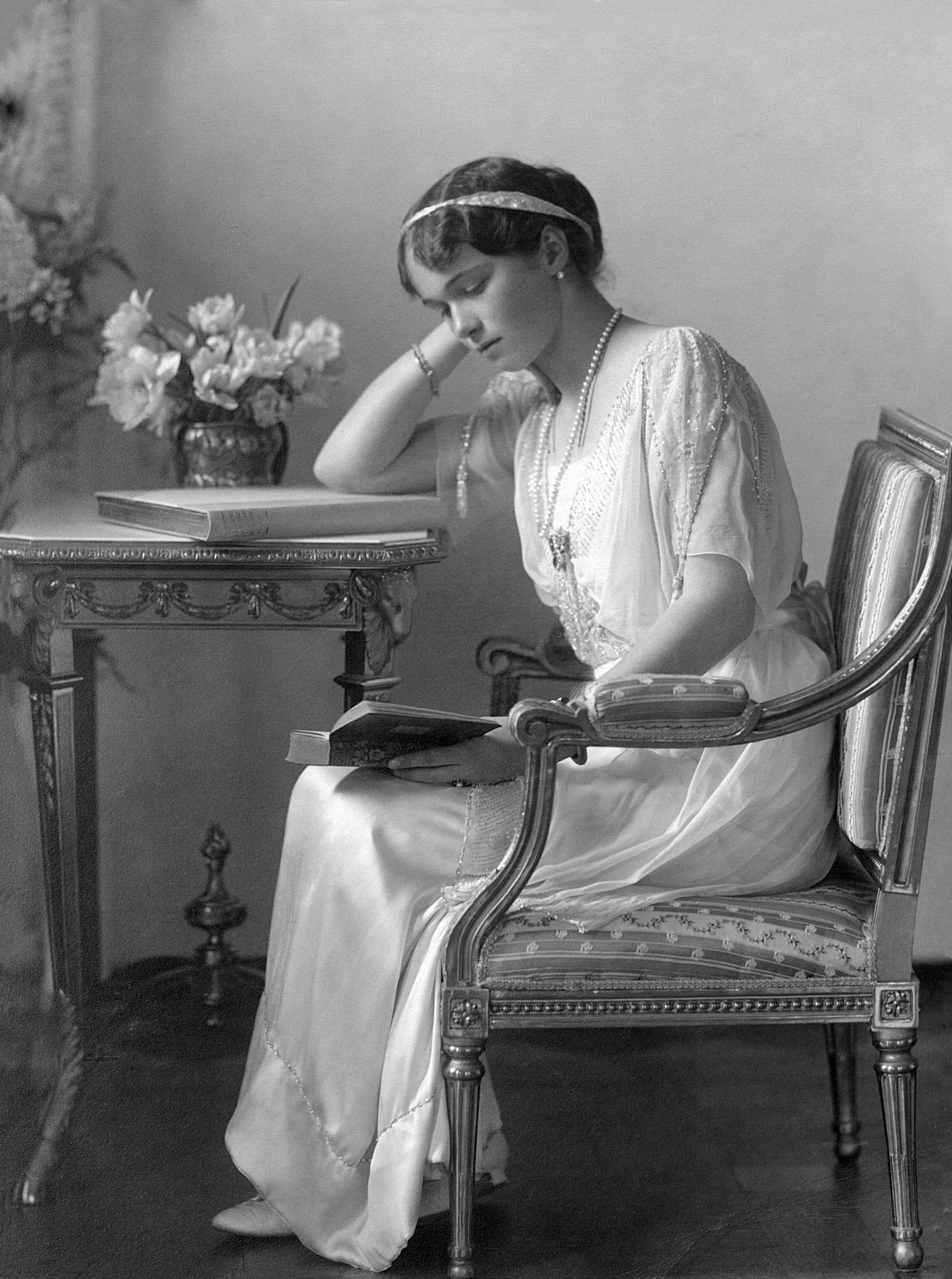 Grand Duchess Olga Nikolayevna